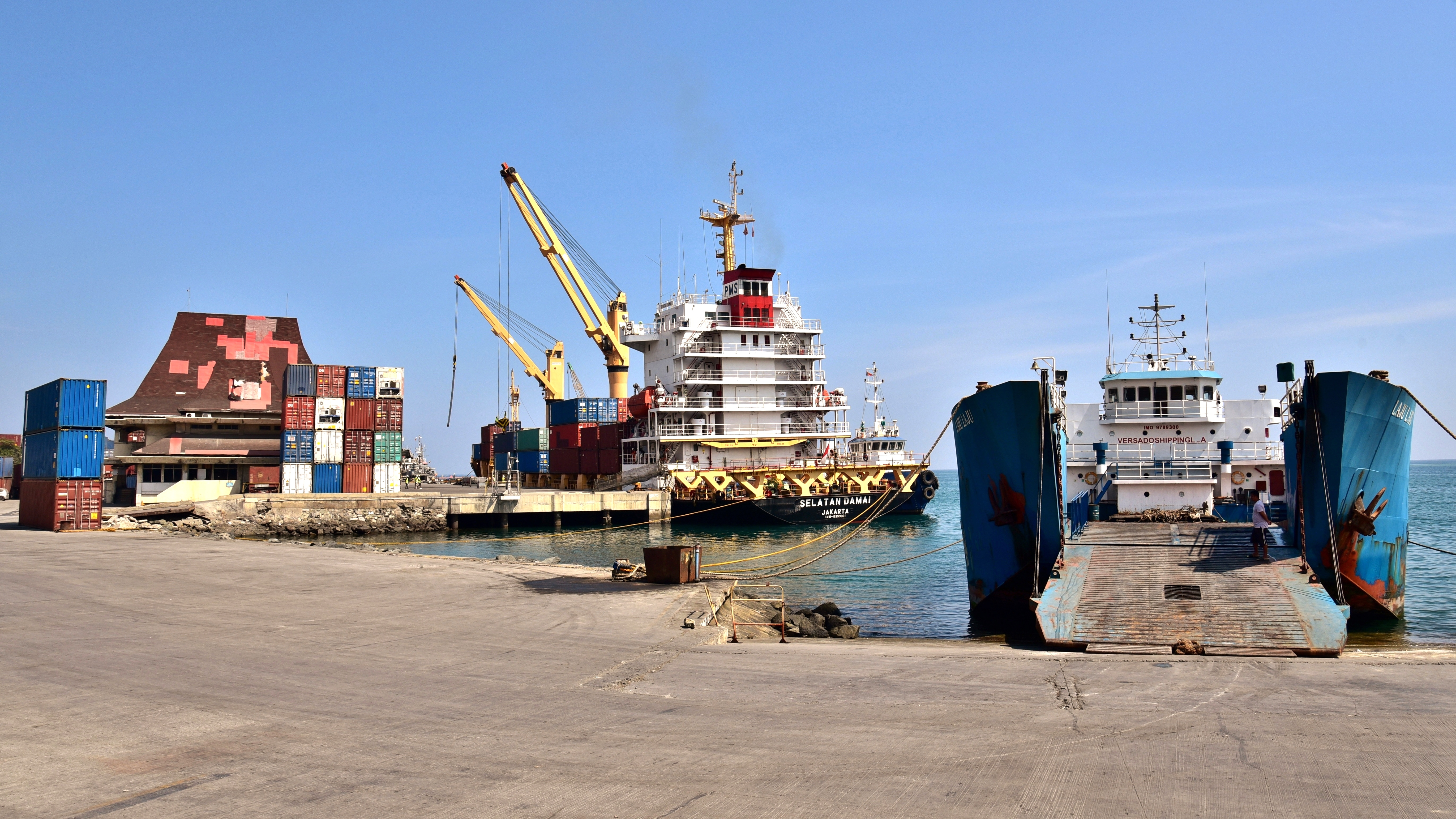 Container ship Selatan Damai discharging cargo in Dili, East Timor, with the landing craft Laju Laju at right